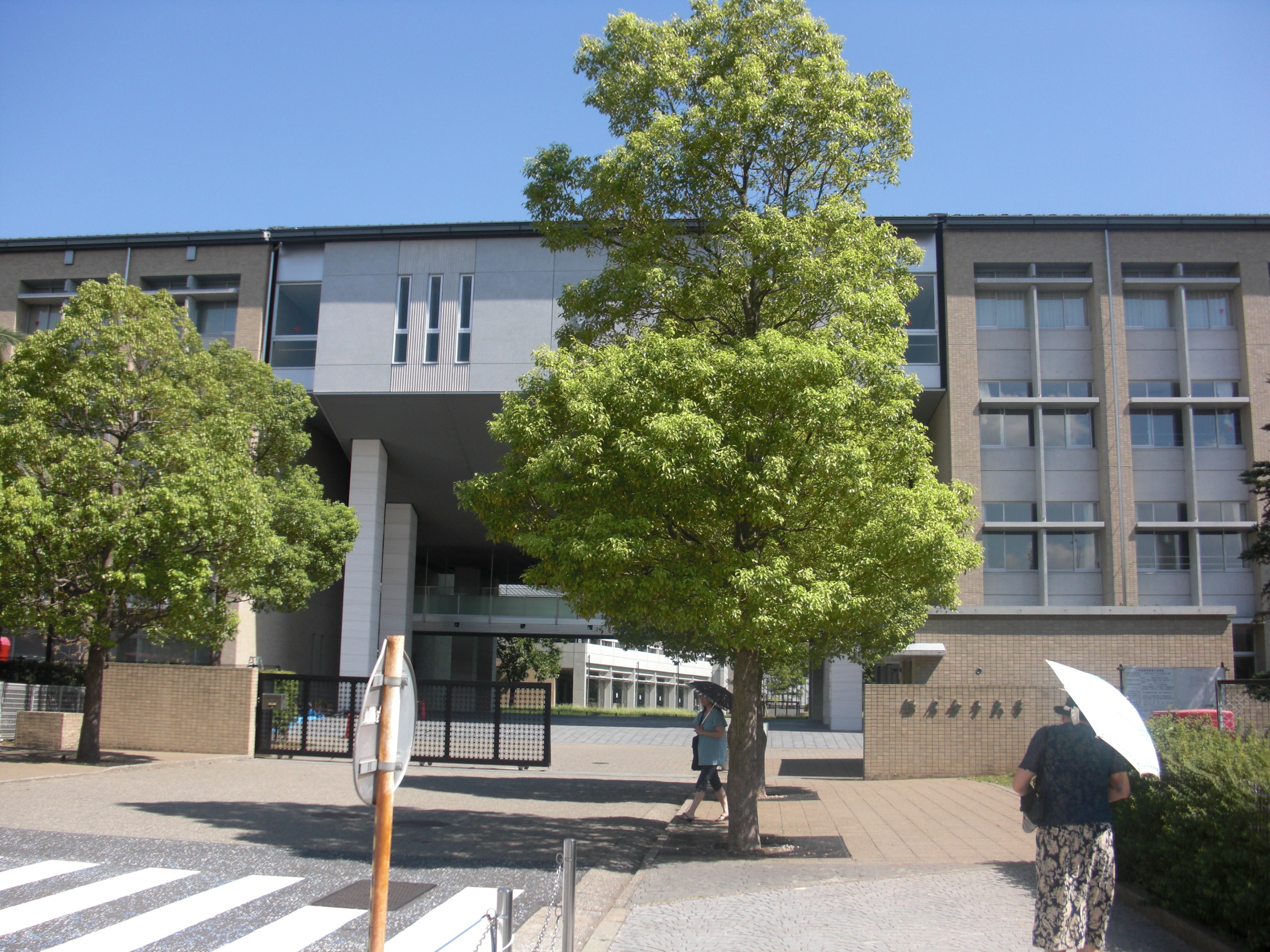 This is the Kamakakura Women's University in Kamakura, Kanagawa, Japan.